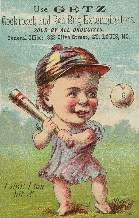 Early Baseball advertisement for a bug spray Advert says: Use Getz cockroach and bed bug exterminators, sold by all druggists I sink I tan hit it.